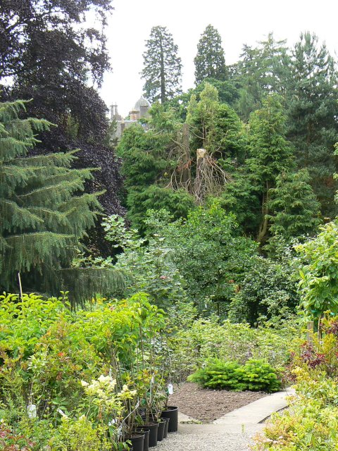 Bonhard House gardens The roof line of the house can just be distinguished above the trees.